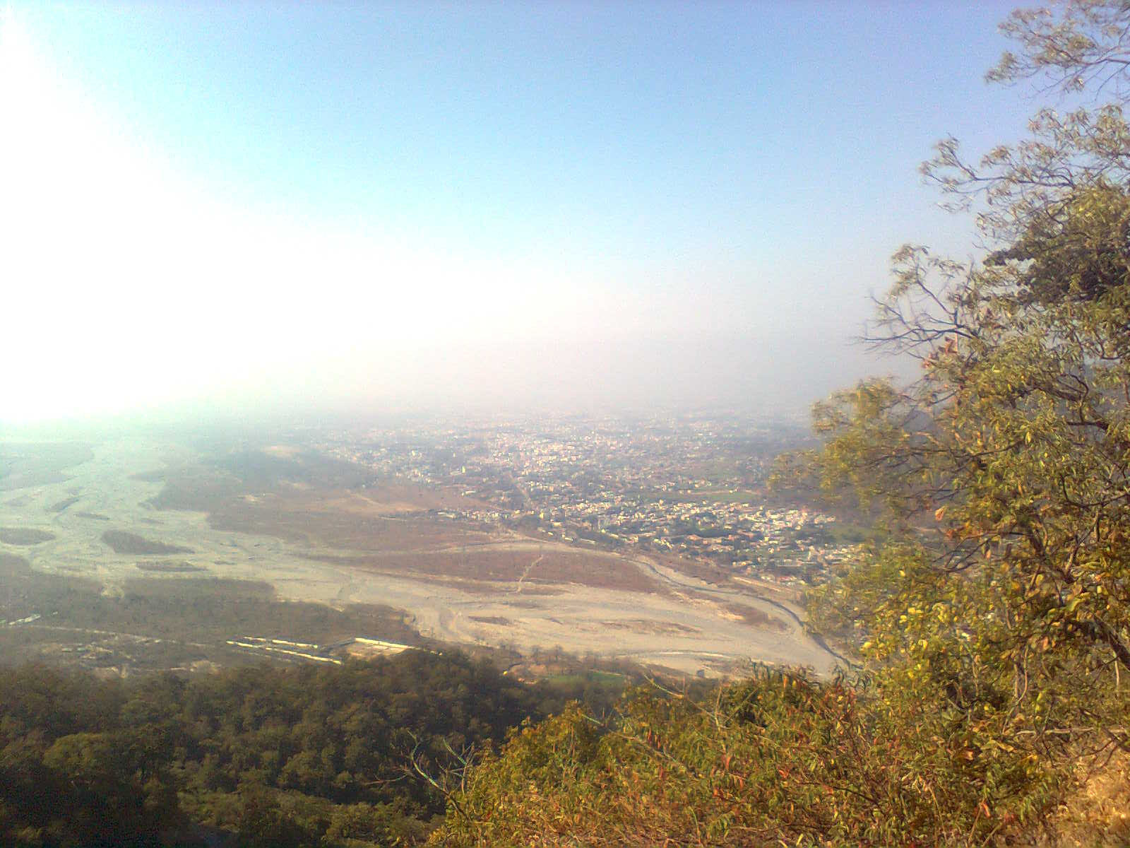 Haldwani-Kathgodam area as seen from en route Bhimtal to Haldwani, Uttarakhand, India.